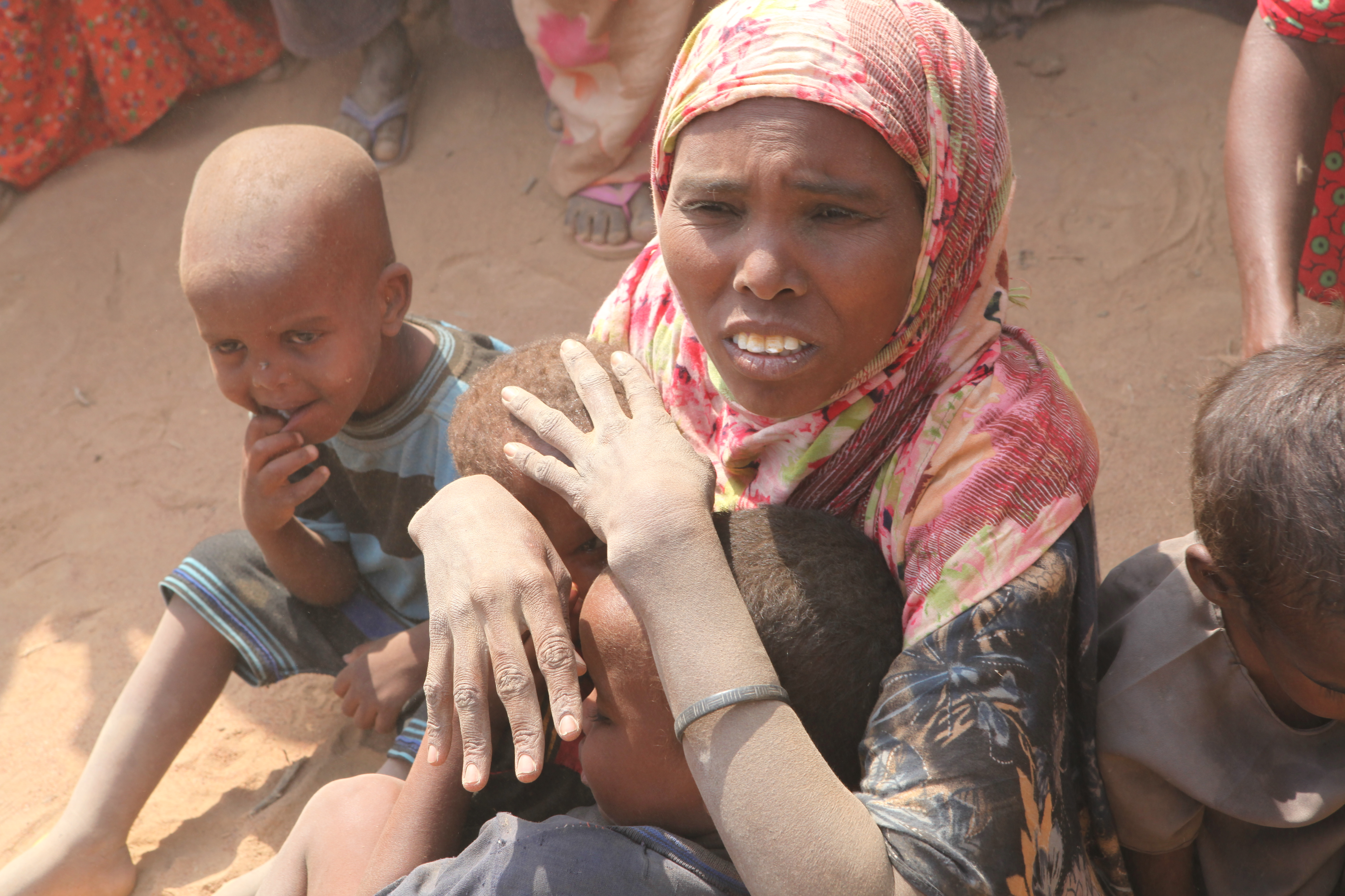 Faduma Hussein Yagoub has just arrived in Dadaab refugee camp Faduma Hussein Yagoub, who suffers from polio and has lost the use of her legs, came with her family to Dadaab on a donkey cart. Her husband and two of her five young children died of hunger on the way. Despite the dangers thousands of refugees every week are making the journey, walking for weeks across the desert and braving attacks by armed robbers and wild animals: “We came from Somalia on a donkey cart to escape the war and the drought. It took us more than 15 days to get here. My husband and two of my young children died of hunger on the way. Near the border we were caught by bandits, who took everything we had. . “We had to leave Somalia. There was shooting and killing innocent people. We came here because we thought we would get support. But there is no food, no water, no shelter. My children and I have not eaten anything since last night. There are many others like me, and we need your support." Fadumo has a food ration card, but as she is disabled she cannot walk to get the food, so she relies on her neighbours to collect it for her.